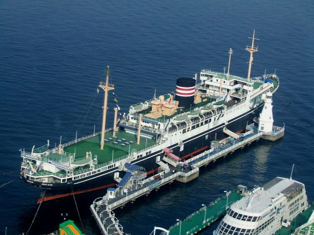 Hikawa maru, Naka, Yokohama, Kanagawa, Japan